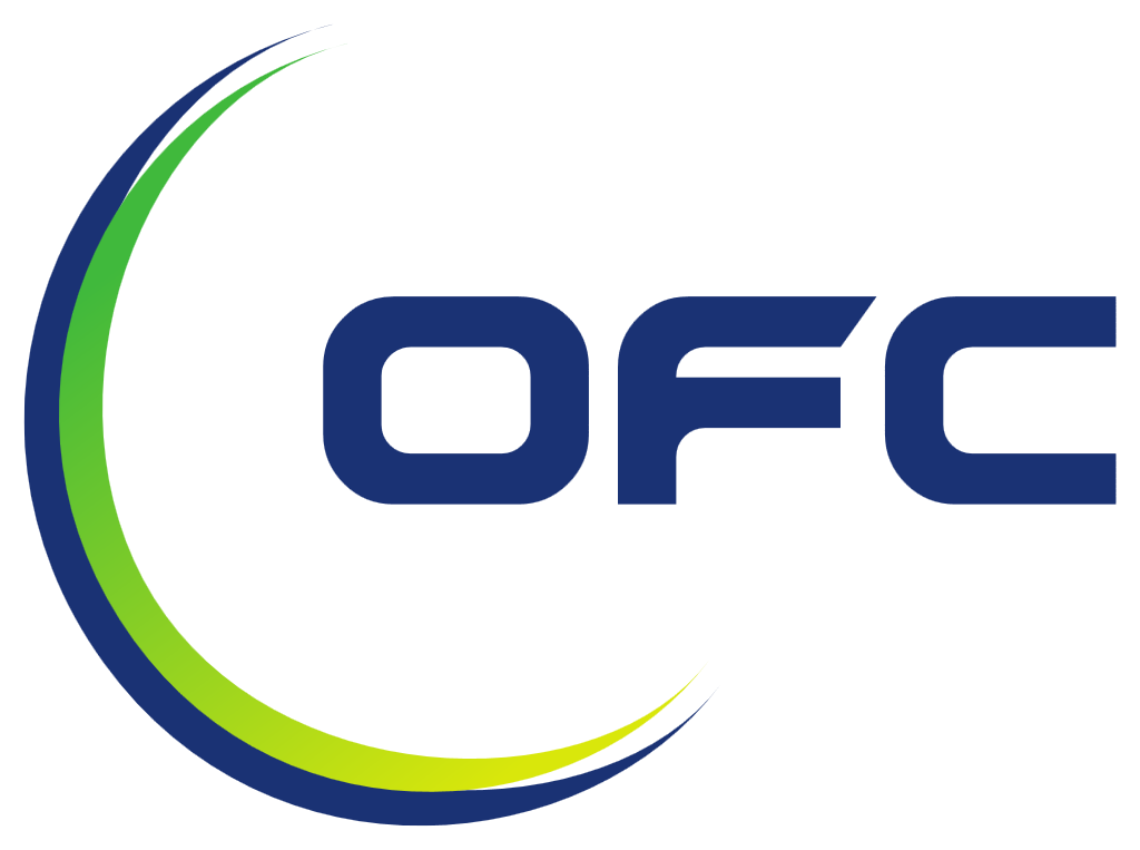 OFC Official logo